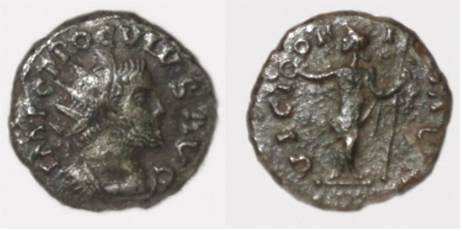 second example of Antoninian of Proculus, Roman usurper ca. 280